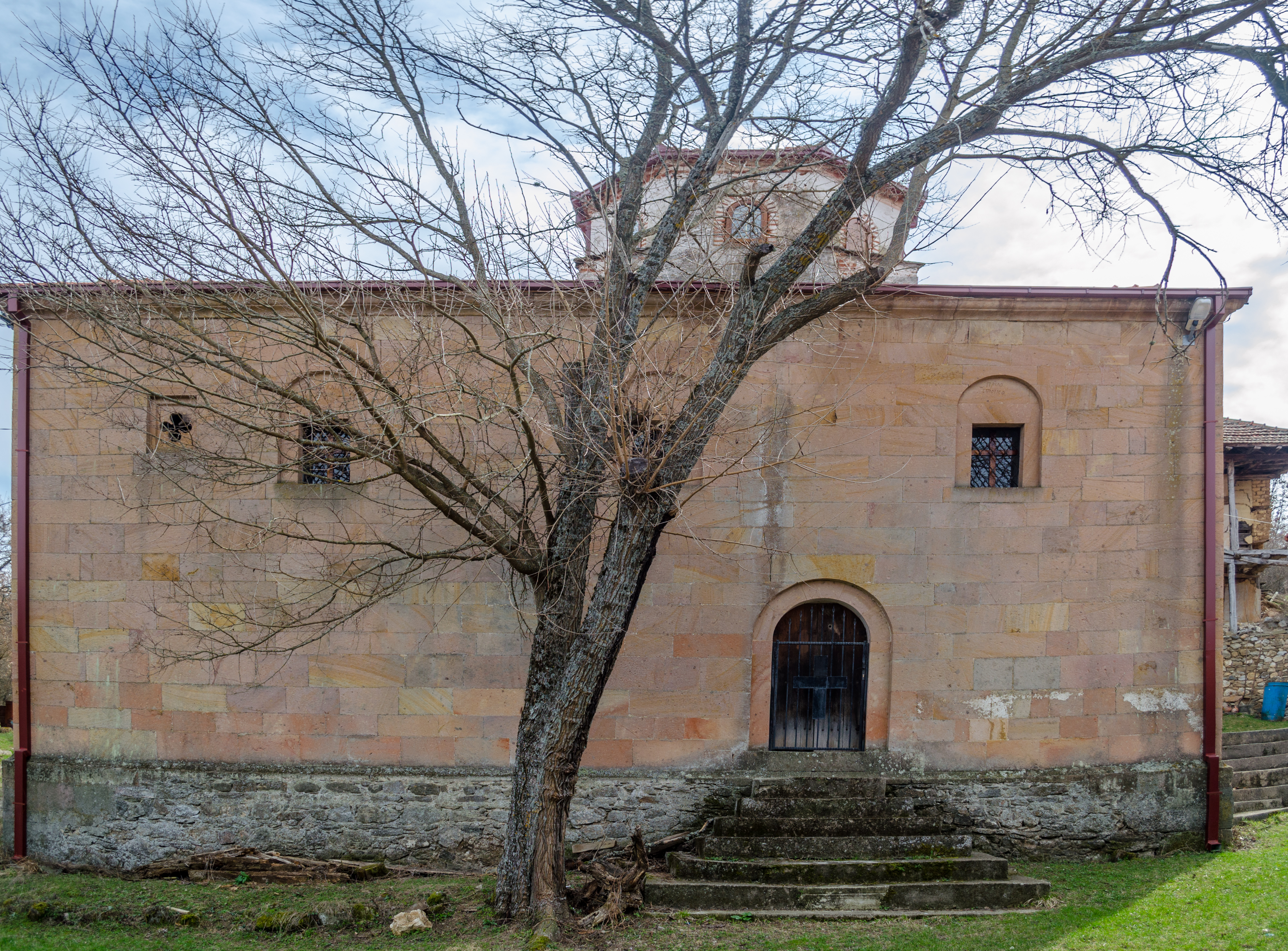 The northern wall of the Church of Assumption of the Holy Virgin of the Zabel monastery, Macedonia